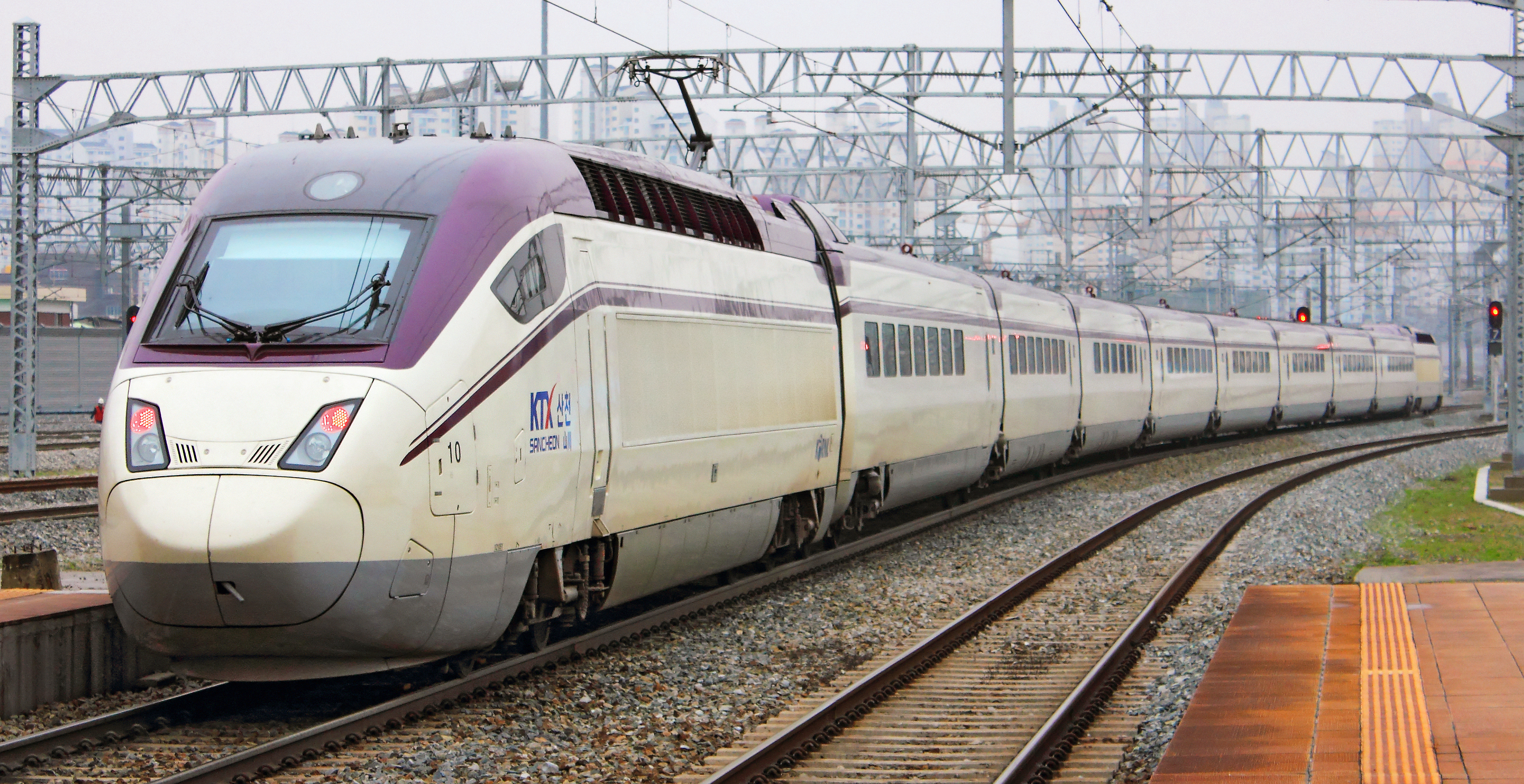 KTX-Sancheon 120000 Series @Daejeon Station